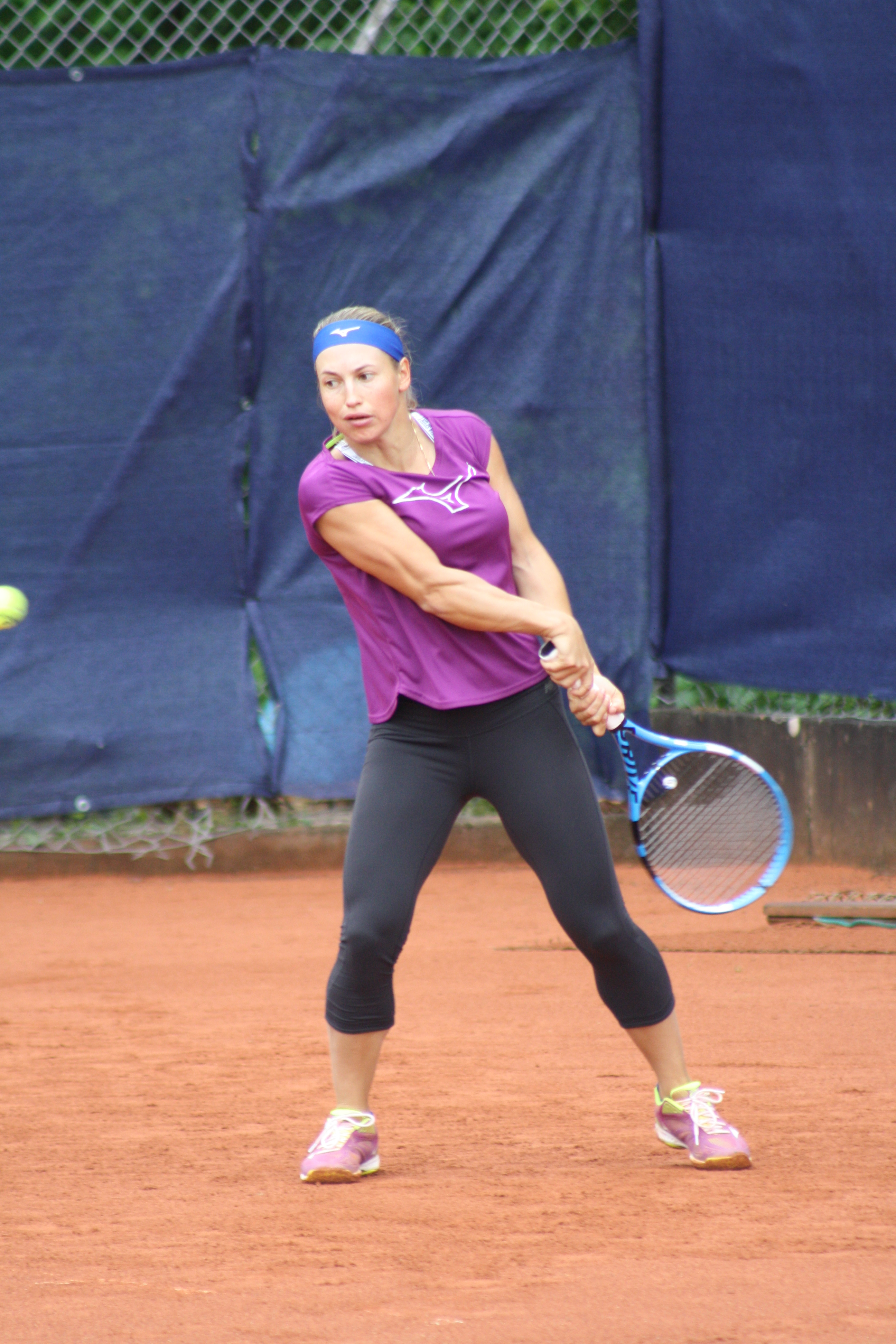 Julija Antonowna Putinzewa, May 2019